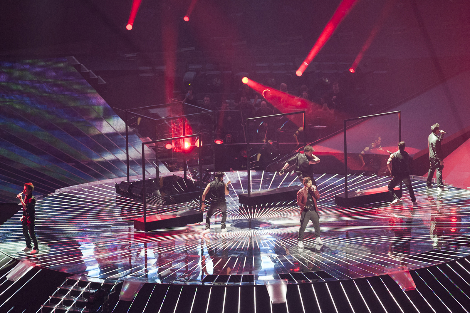 Eric Saade from Sweden performing "Popular" at Eurovision Song Contest 2011 in Düsseldorf